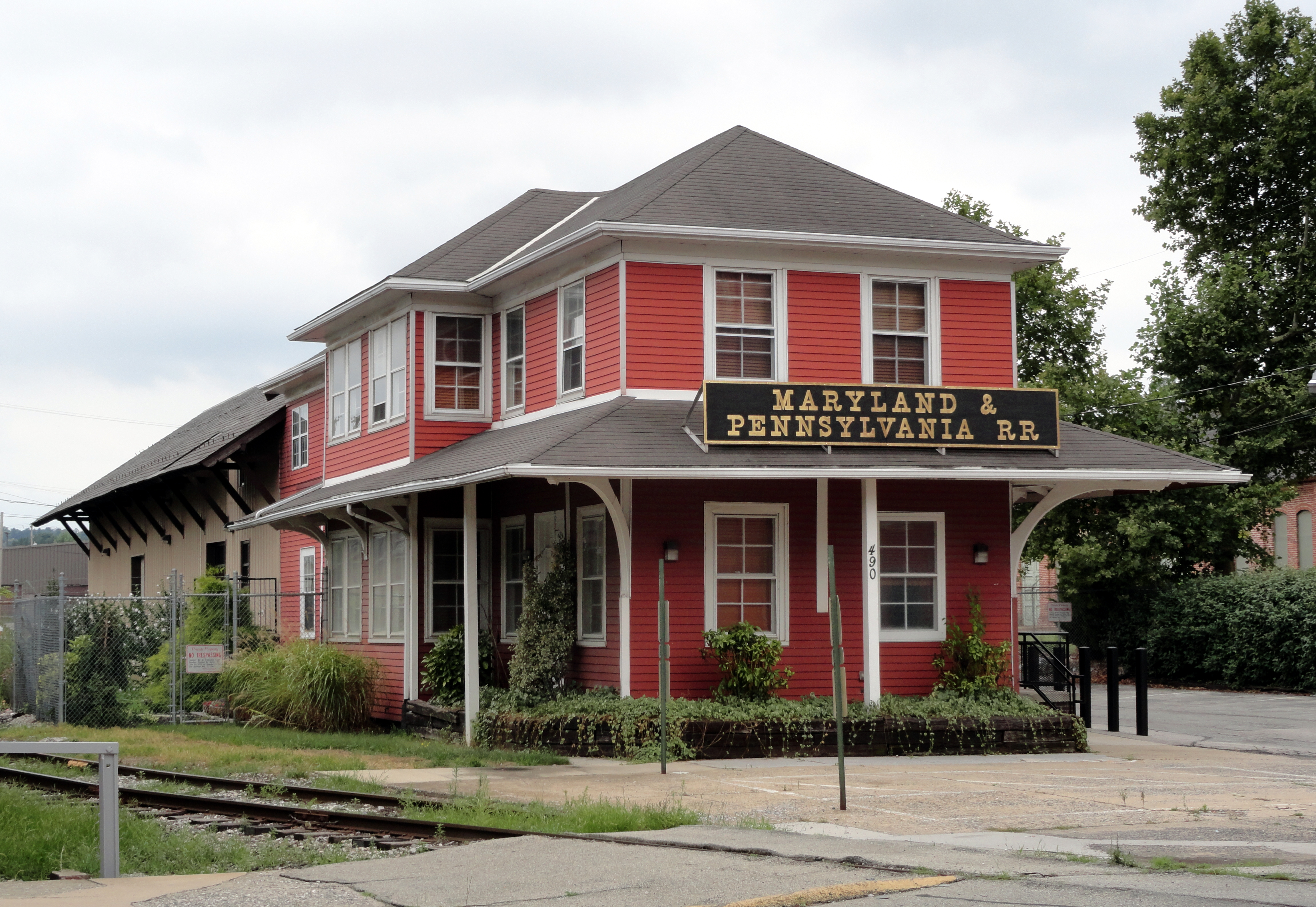 View of former Maryland and Pennsylvania Railroad depot and freight shed at 490 E. Market St., York, Pennsylvania. Built 1907. Passenger service on the "Ma and Pa" Railroad ended in 1954. The building is now used by the York Housing Authority.